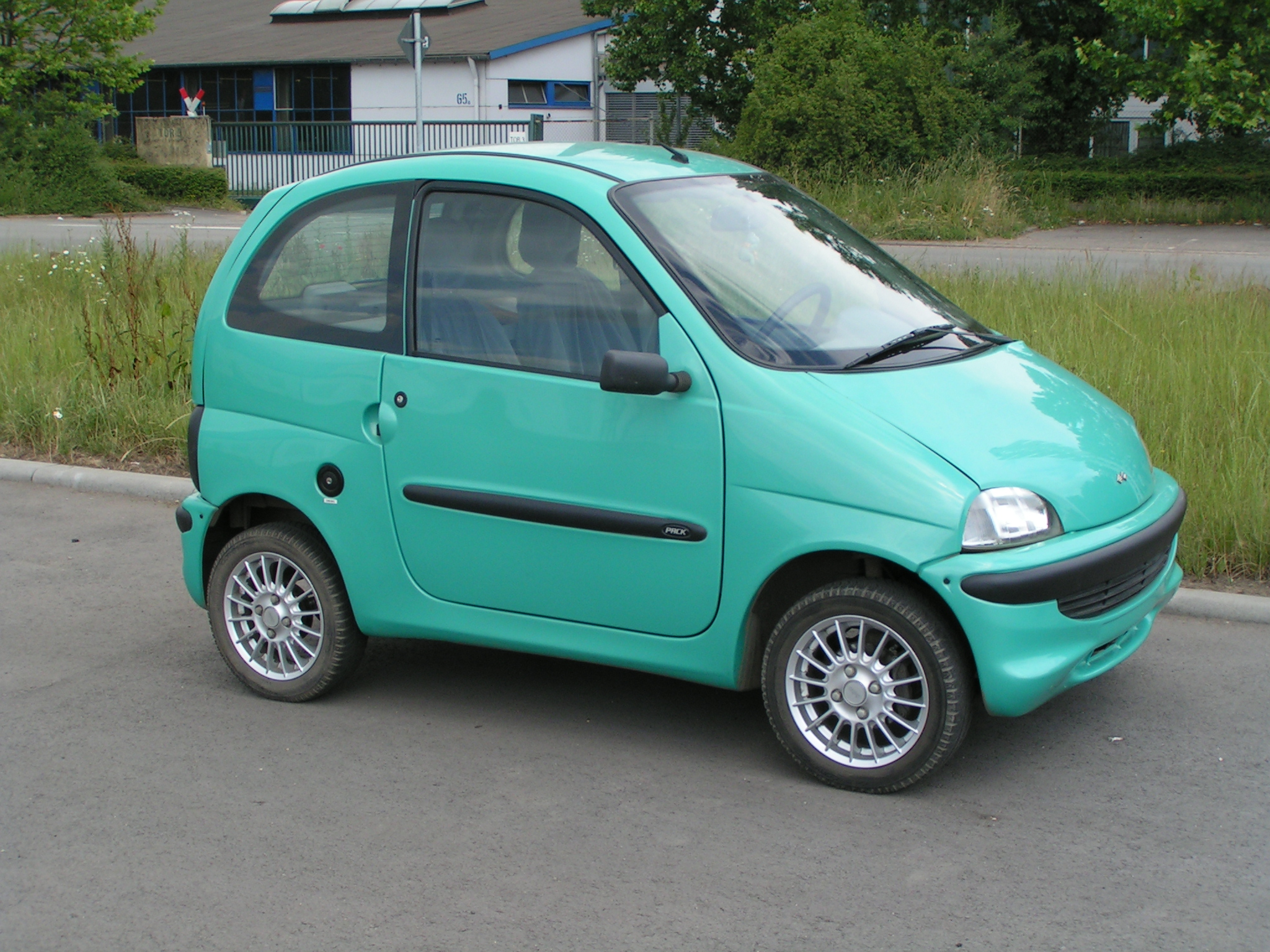 Automobil Ligier Nova